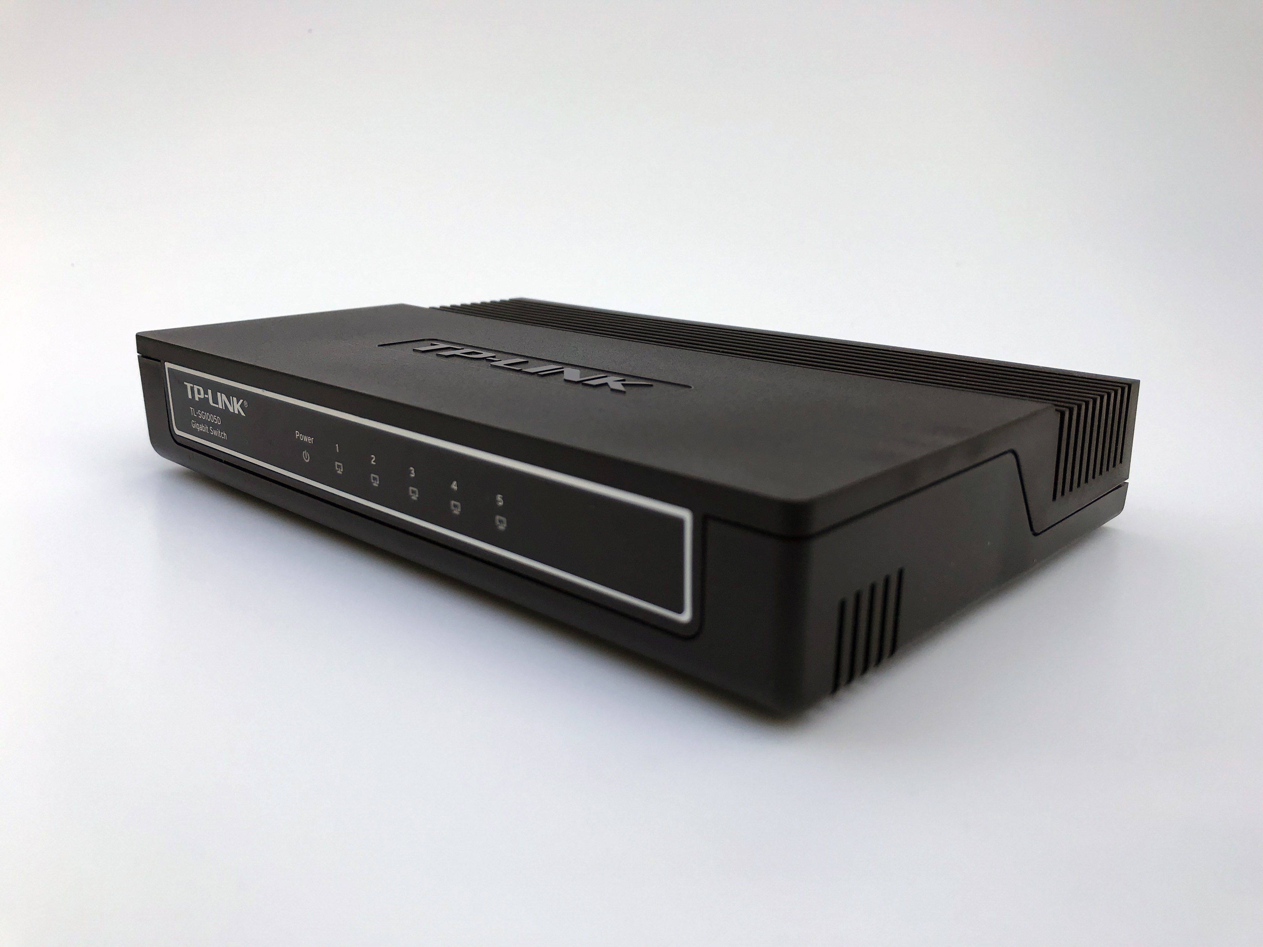 5 Port Gigabit Netzwerk-Switch TL-SG1005D